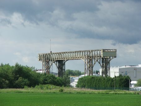 Photo taken by J Tattersall